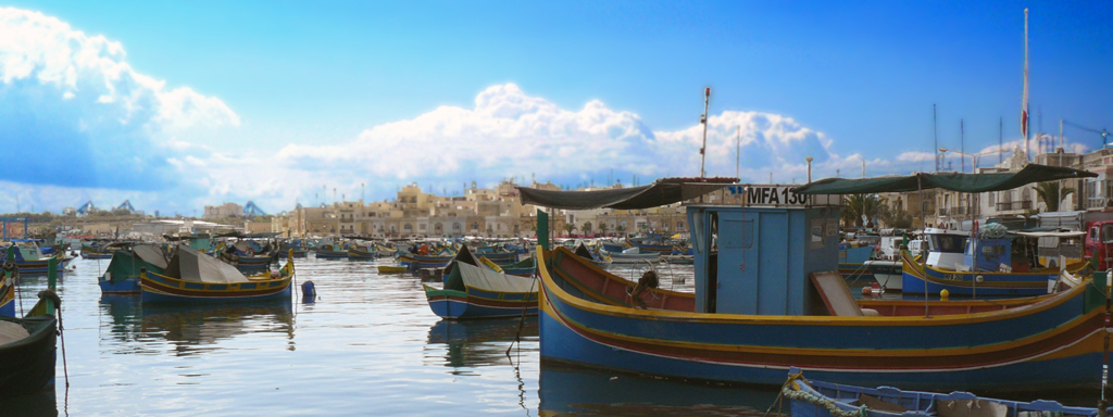 The view of Marsaxlokk bay with fishing boats - luzzu. Fishing village Marsaxlokk, Malta.